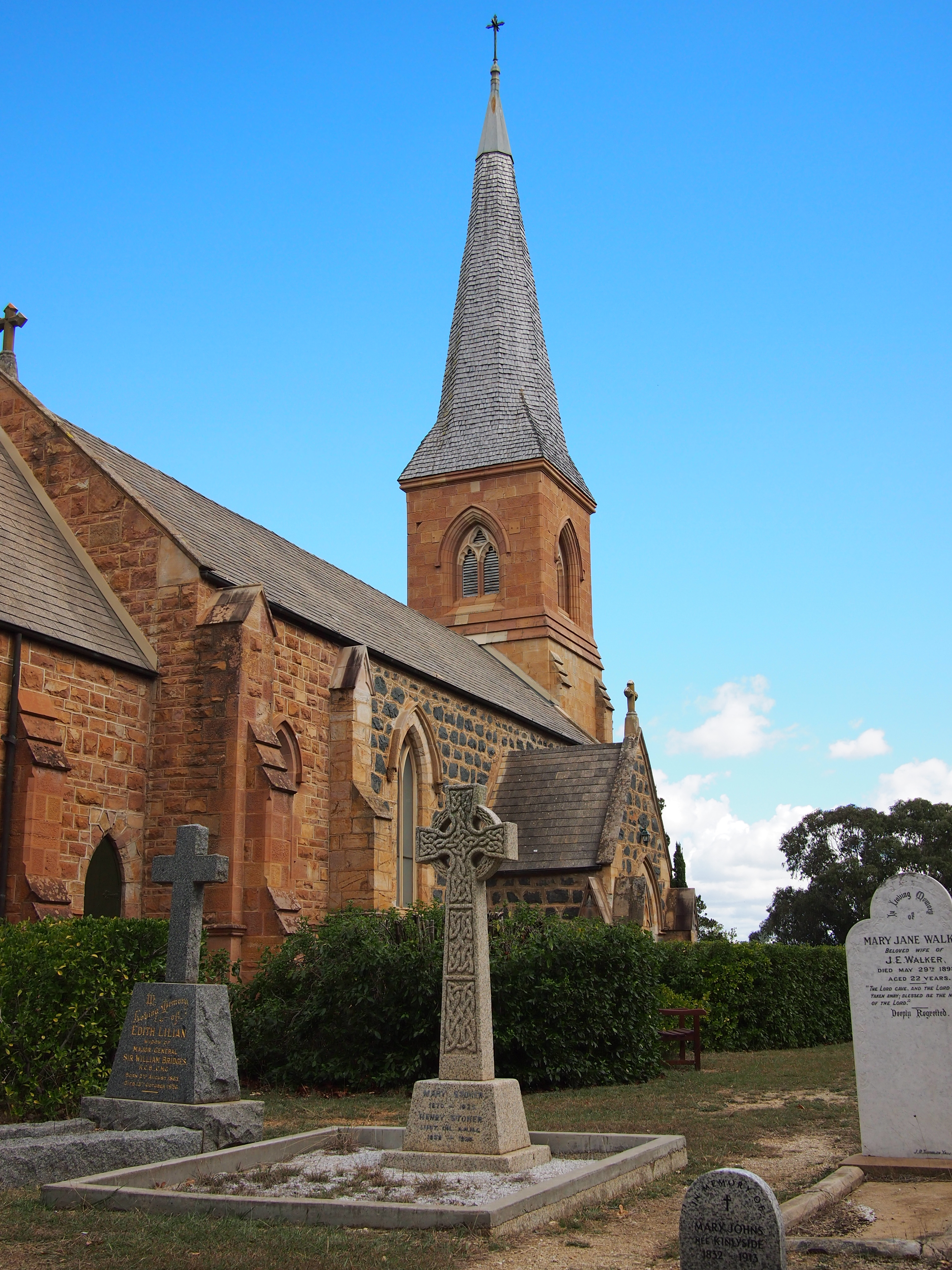 The steeple of St John the Baptist Church in Reid, and part of the church's graveyard